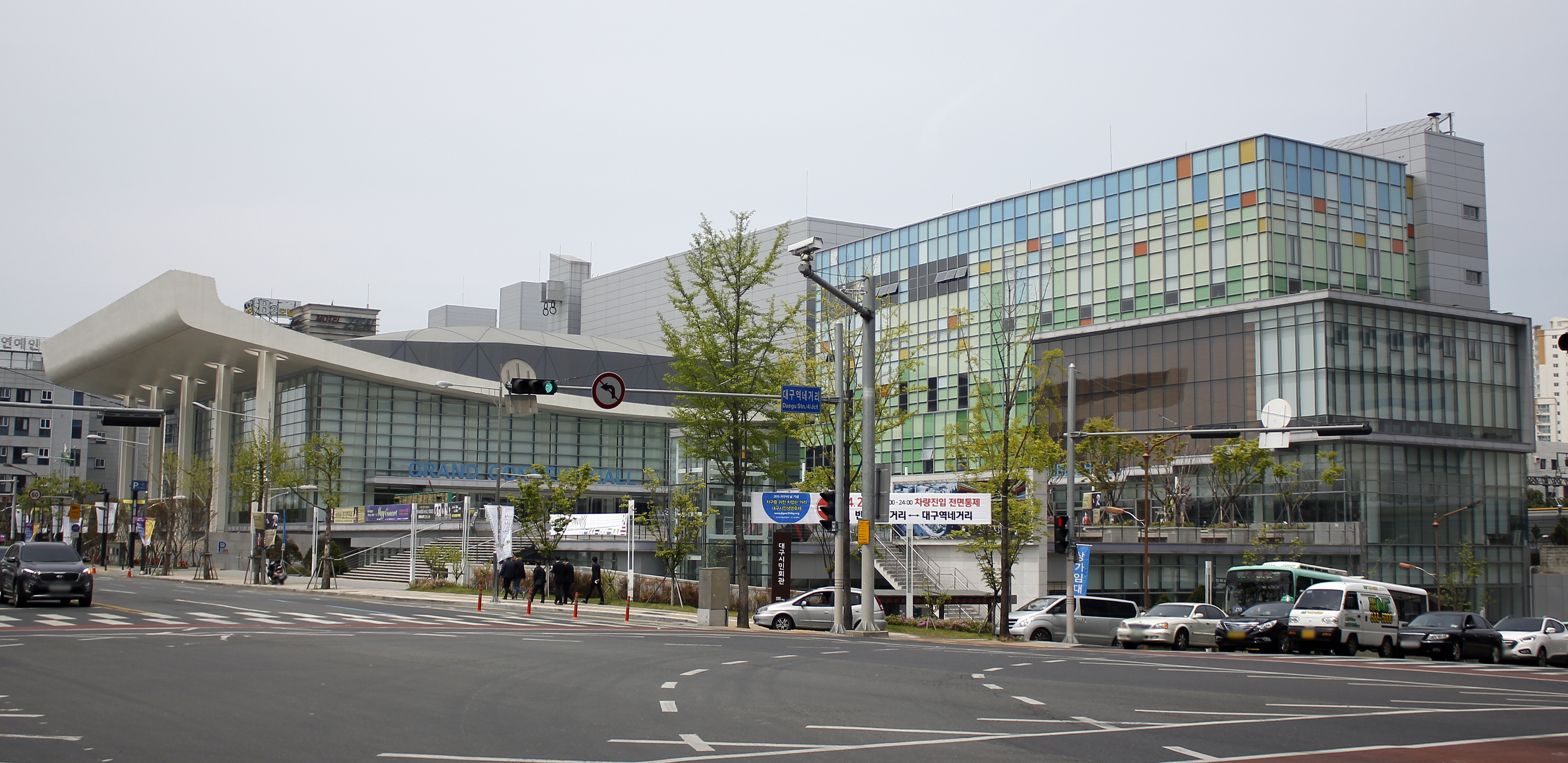 Daegu Citizen Centre